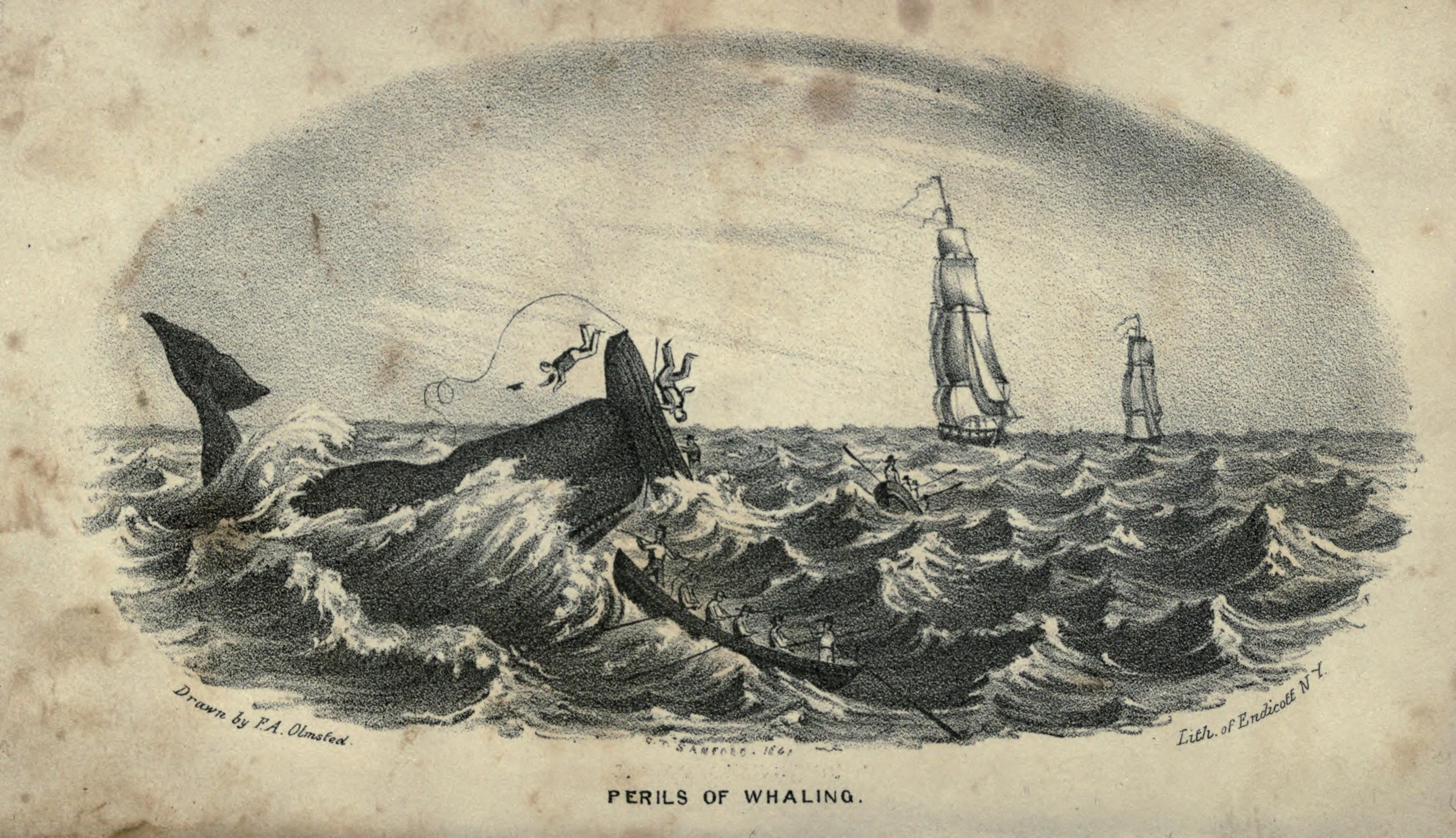 Perils of Whaling. Drawn by Francis Allyn Olmsted. Lithograph of Endicott, N. Y.